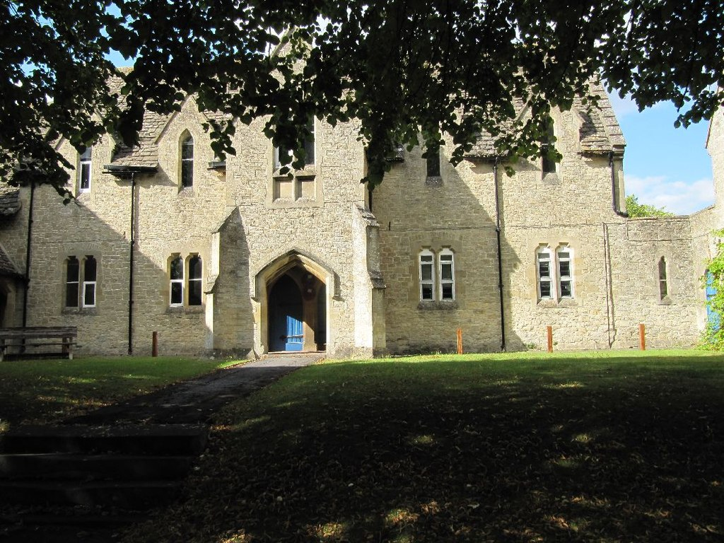 The old school entrance, King Alfreds School, Wantage